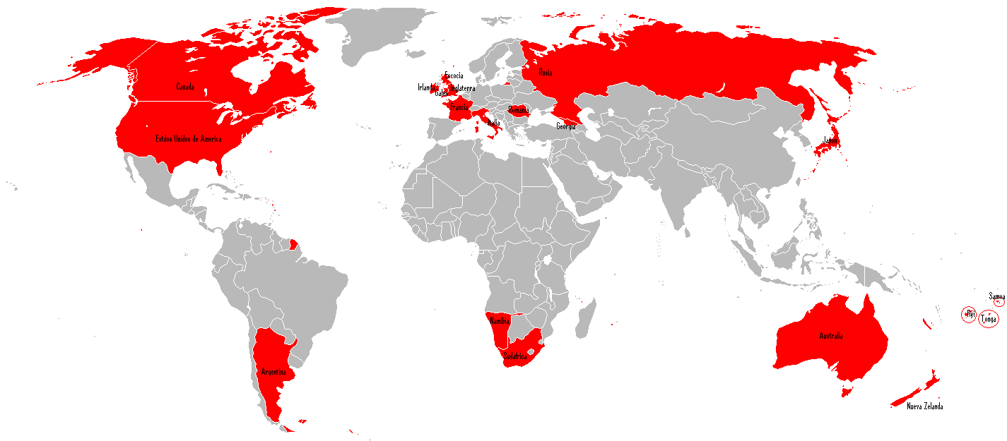 Selecciones de Rugby 2011